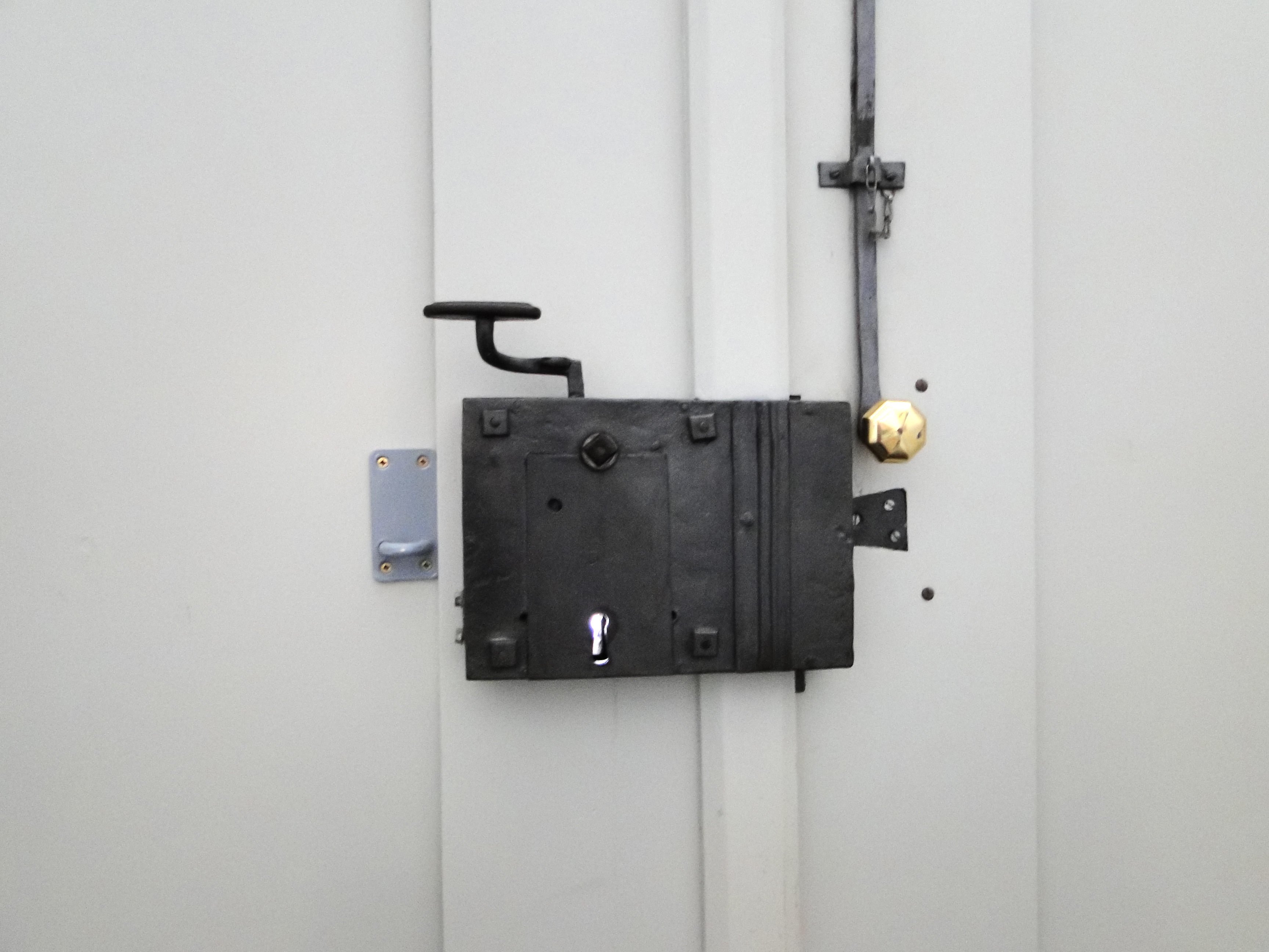 Door handle in Church St. Anna in Schwerin, Mecklenburg-Vorpommern, Germany